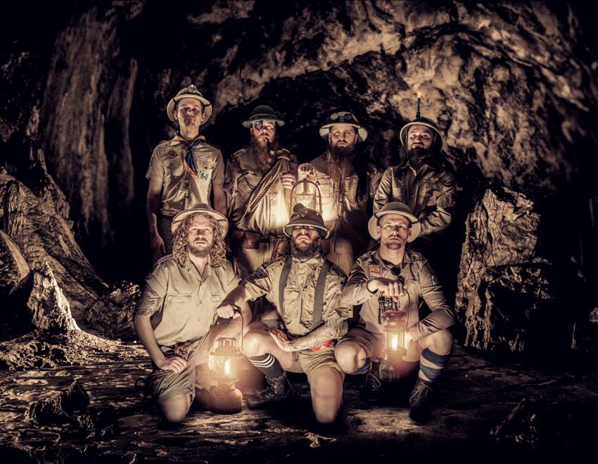 TrollfesT anno 2018.